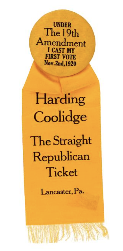 Yellow Harding Coolidge "I voted"l badge to commemorate newly enfranchised women voters for first eligible presidential election in 1920 after 19th amendment was enacted